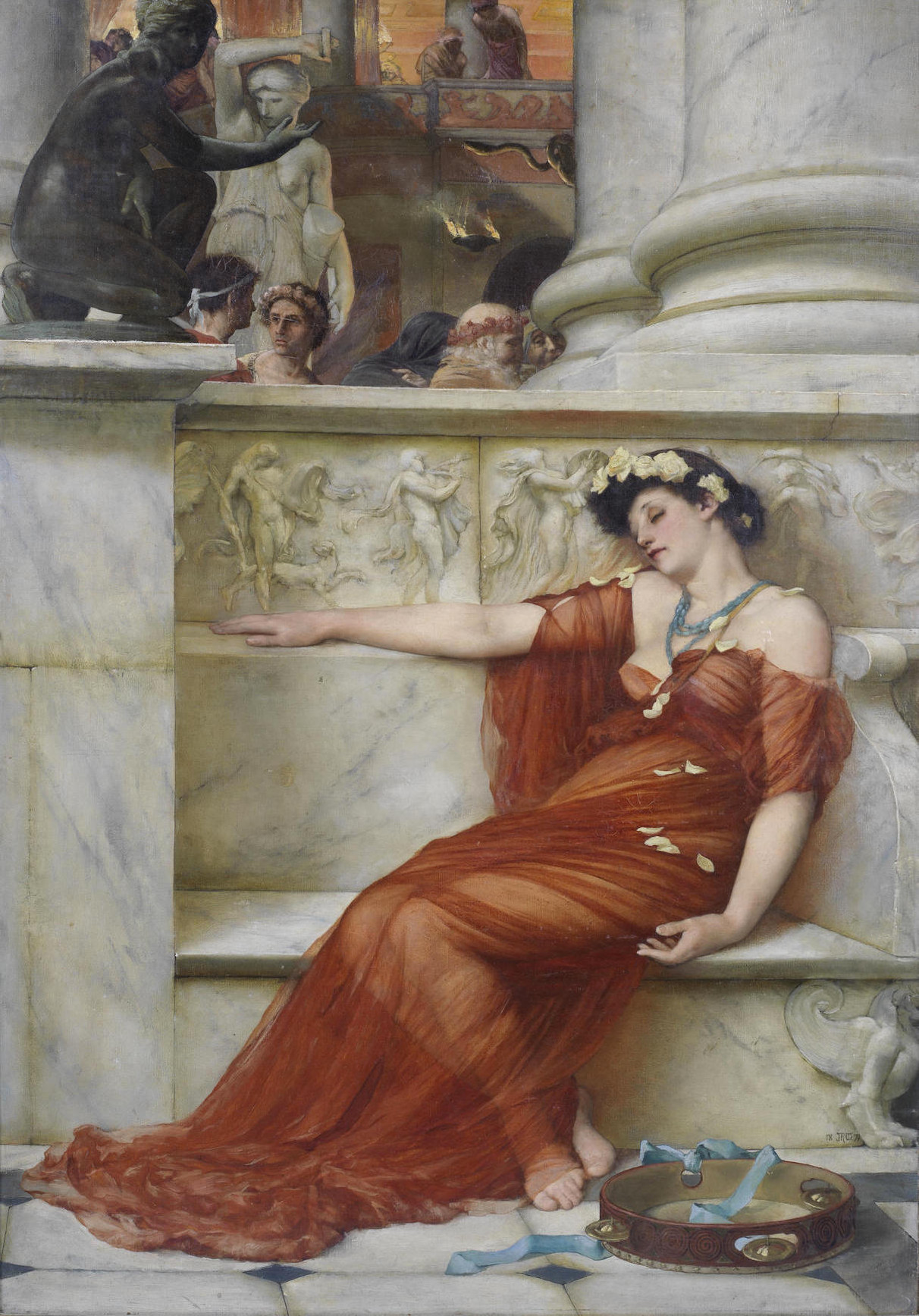 An exhausted Roman dancer sleeps against a marble bench. She wears a diaphanous red gown, a necklace of turquoise beads, and a garland of yellow flowers, from which a number of petals have fallen as she sleeps. A tambourine lies at her feet, and revelers can be seen in the background. Oil on canvas, 45 1/4 x 30".